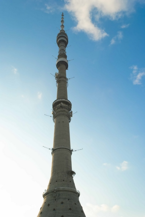 Ostankino Tower in August, 2012